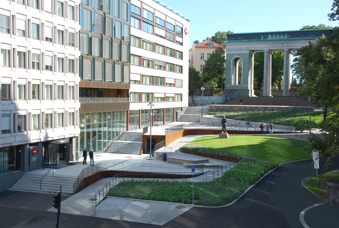 Schandorffsplass oslo